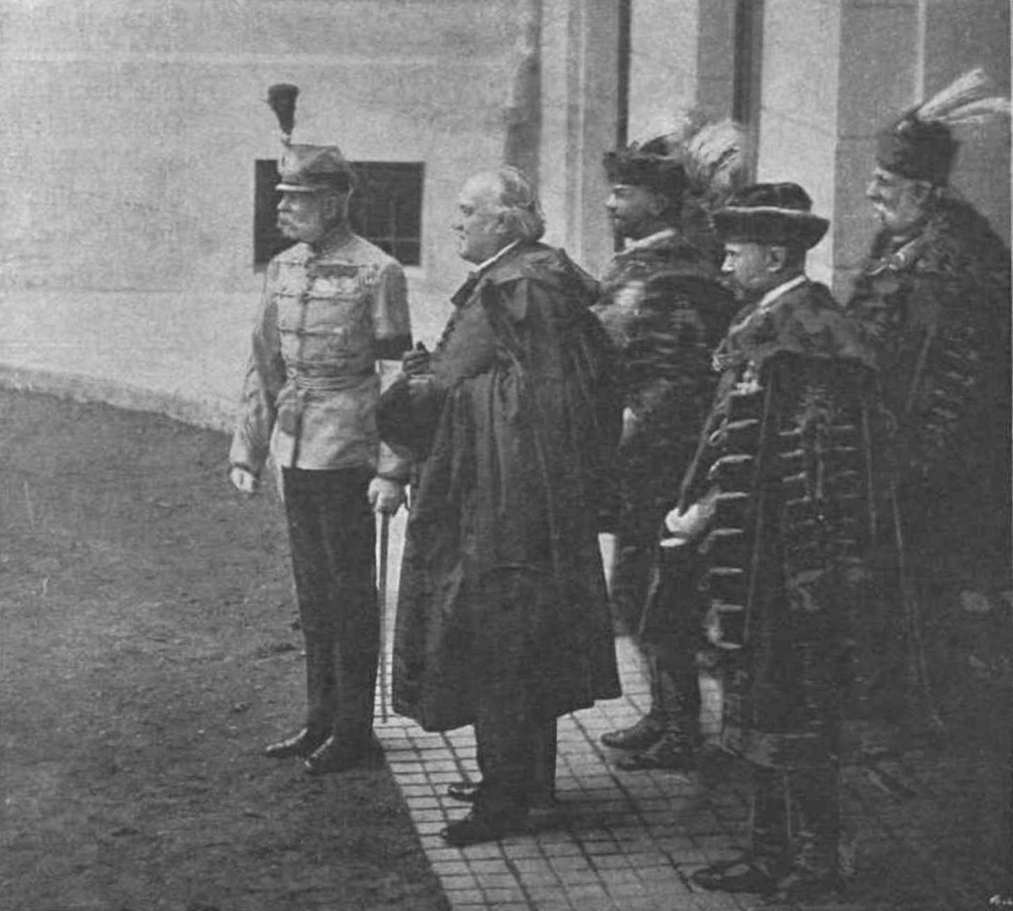 Domokos Szász with Franz Joseph I of Austria and Dezső Bánffy